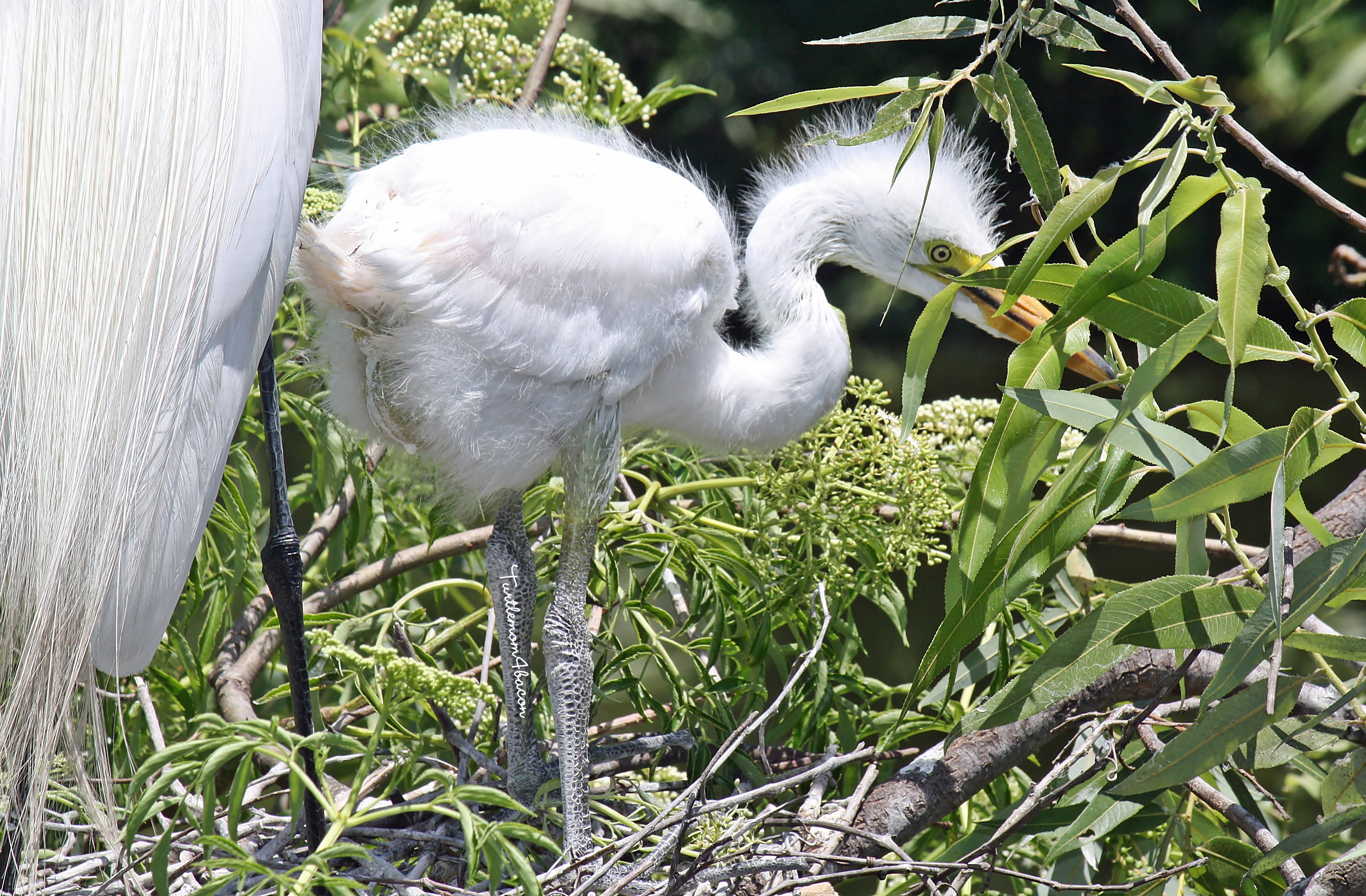 A juvenile Great Egret in Gatorland, Orlando, Florida, USA.